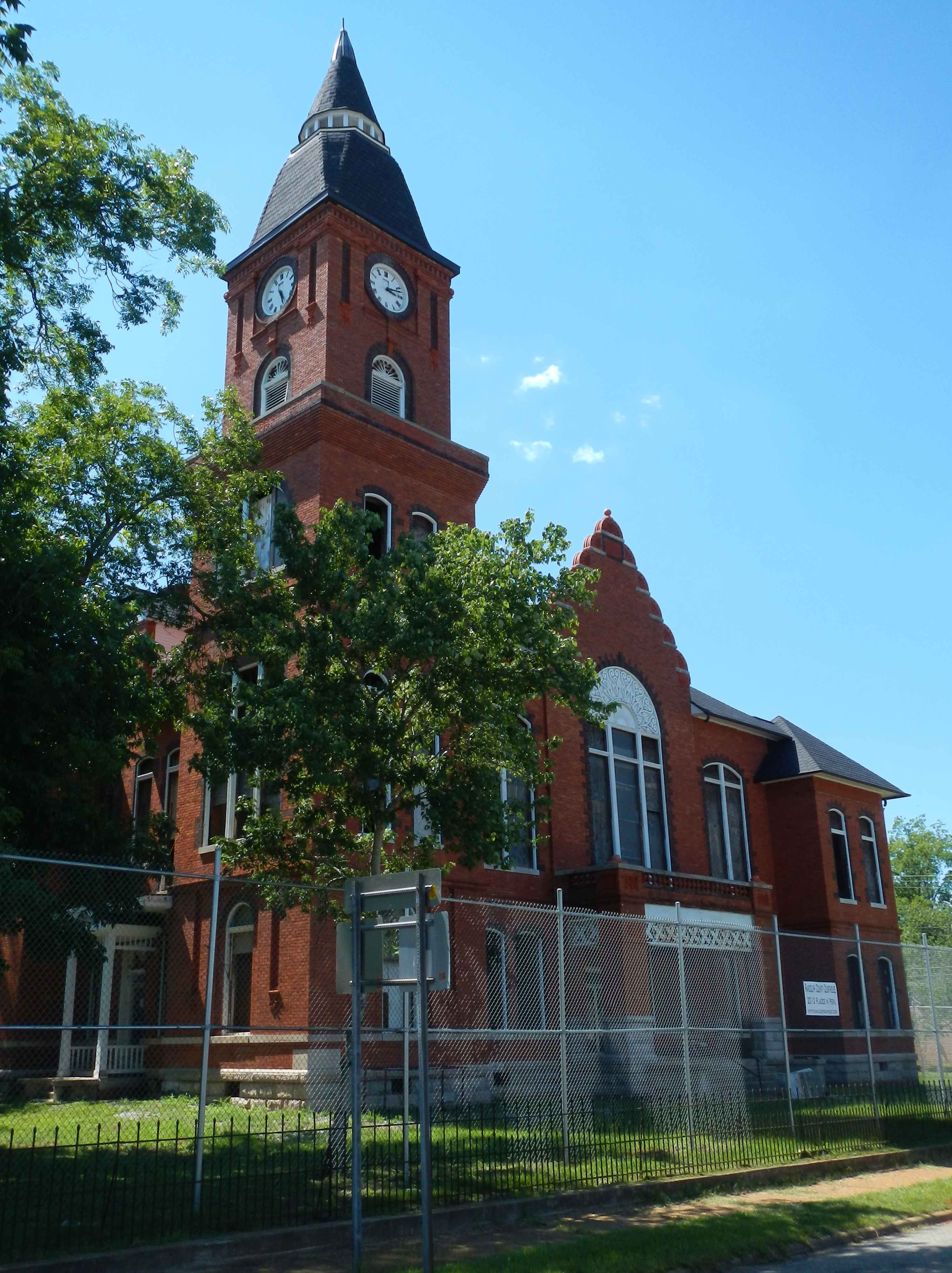 This is a photograph of the Randolph County Courthouse in Cuthbert, GA.